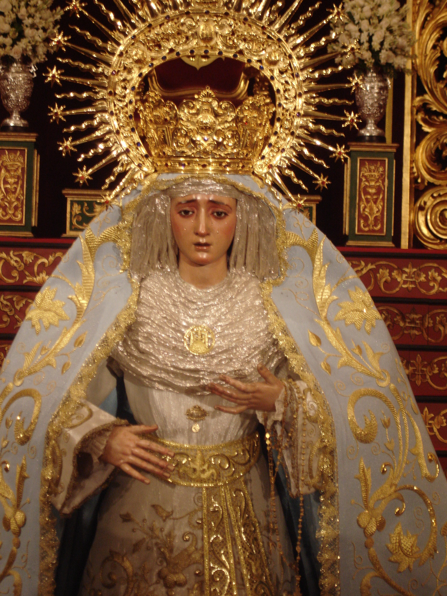 Virgin of Montserrat-Seville